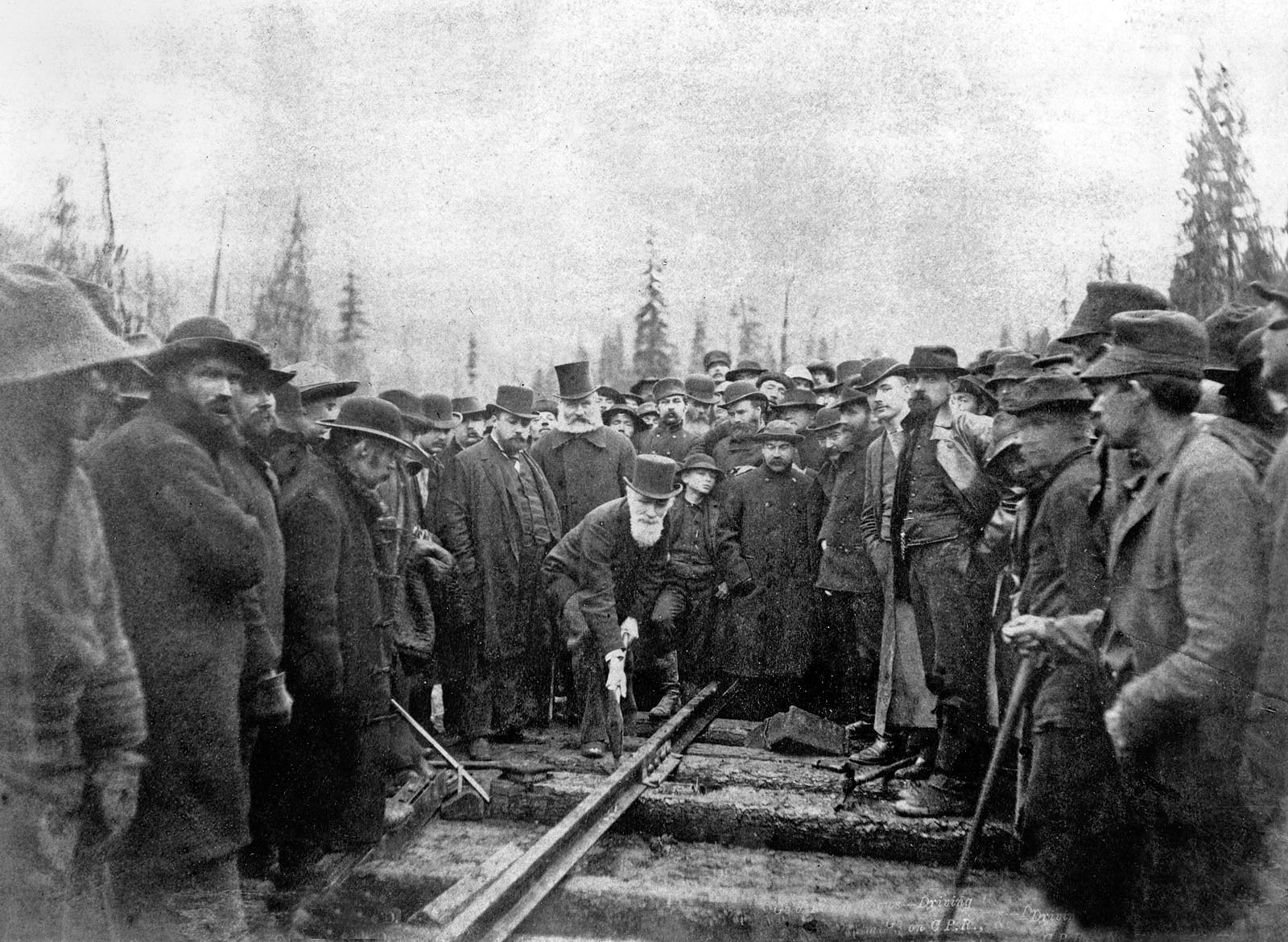 Last Spike of the CPR - Craigellachie, British Columbia, Canada. Donald Alexander Smith driving the last spike of the Canadian Pacific Railway. Also in the photo are (generally left to right) Albert Bowman Rogers (Surveyor), Michael Haney (Contractor), William Cornelius Van Horne (CPR Manager), Sir Sandford Fleming, Edward Mallandaine (teenager), Henry Cambie (engineer), John Egan (General Superintendent), Sam Steele (NorthWest Mounted Police), James Ross (engineer). The man at the rear of the photo, just right of centre, with a white cowboy hat and moustache, is reputed to be Tom Wilson, guide & outfitter & the first white man to see Lake Louise.